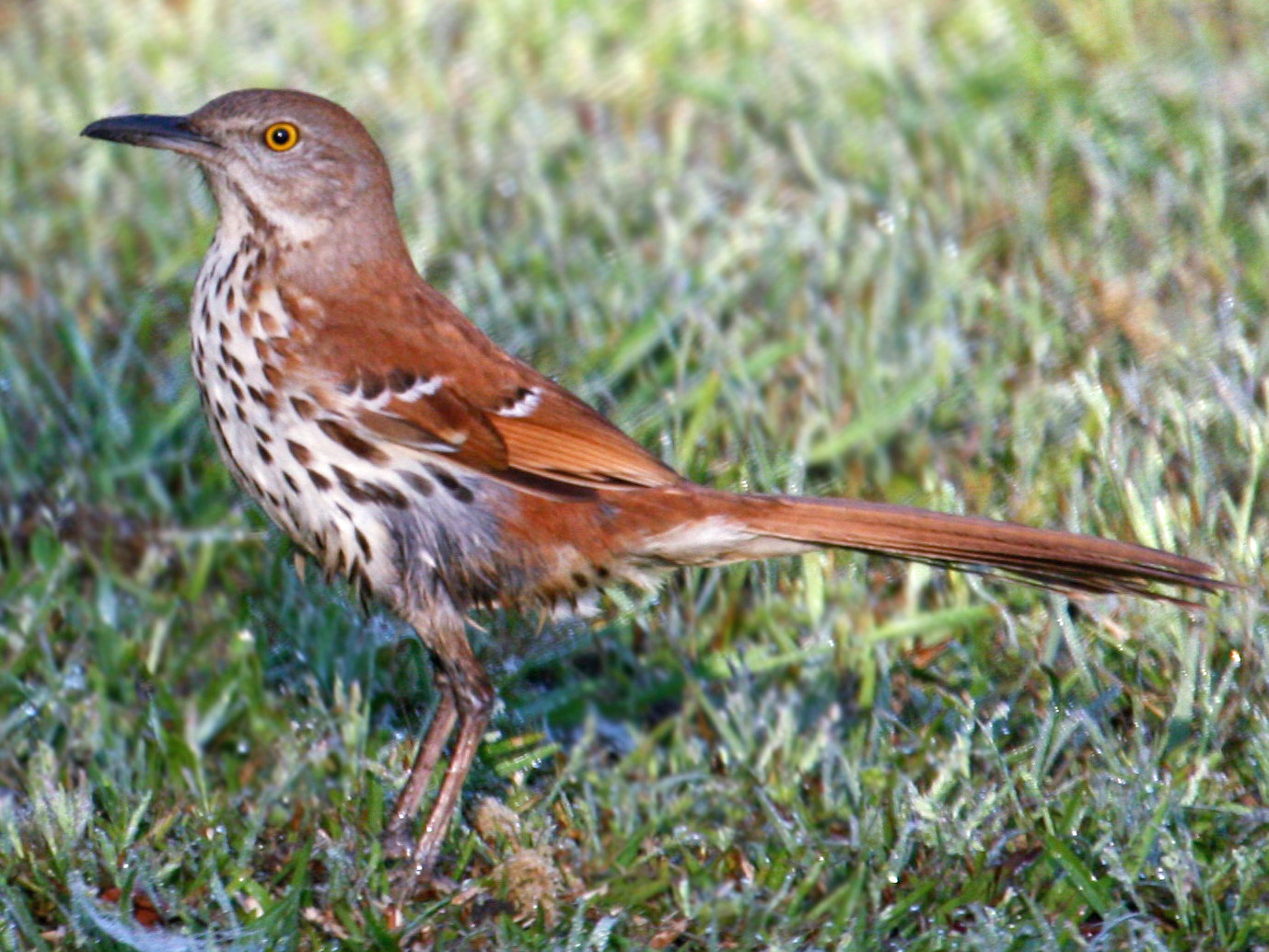 Brown Thrasher (Toxostoma rufum) at Sea Trail, North Carolina